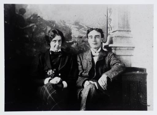 Roger Fry (1866-1934) with his wife Helen at Failand House near Bristol. Fry married Helen Coombe, a fellow artist, in 1897. Helen suffered from a mental illness and in 1910 was committed to a home, but Fry remained devoted to her, writing her loving letters throughout his life.